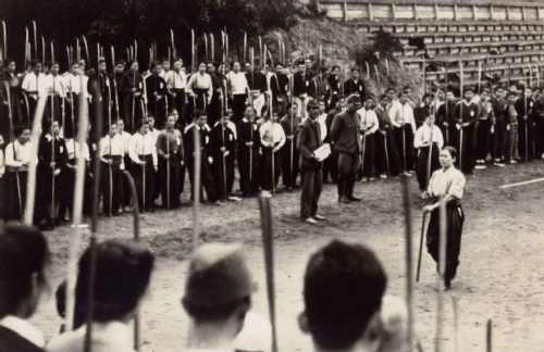 Student militia of the IJA 52 Army training on Kujukurihama Beach, Chiba, early 1945